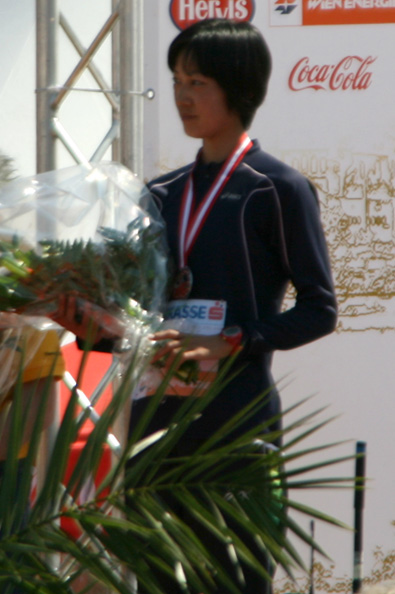 Tomo Morimoto - Vienna City Marathon 2008